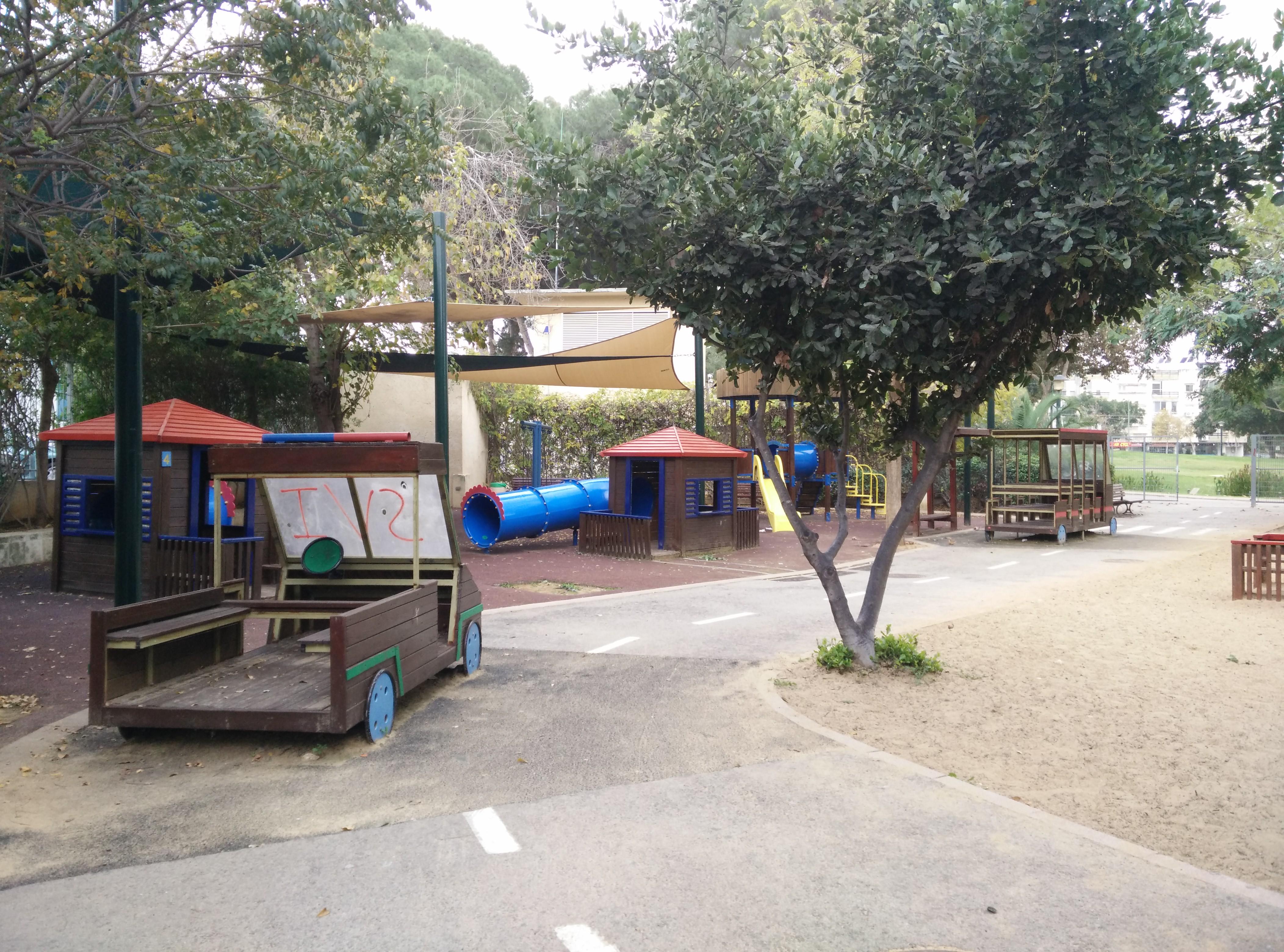 אזור המשחקים שבגן